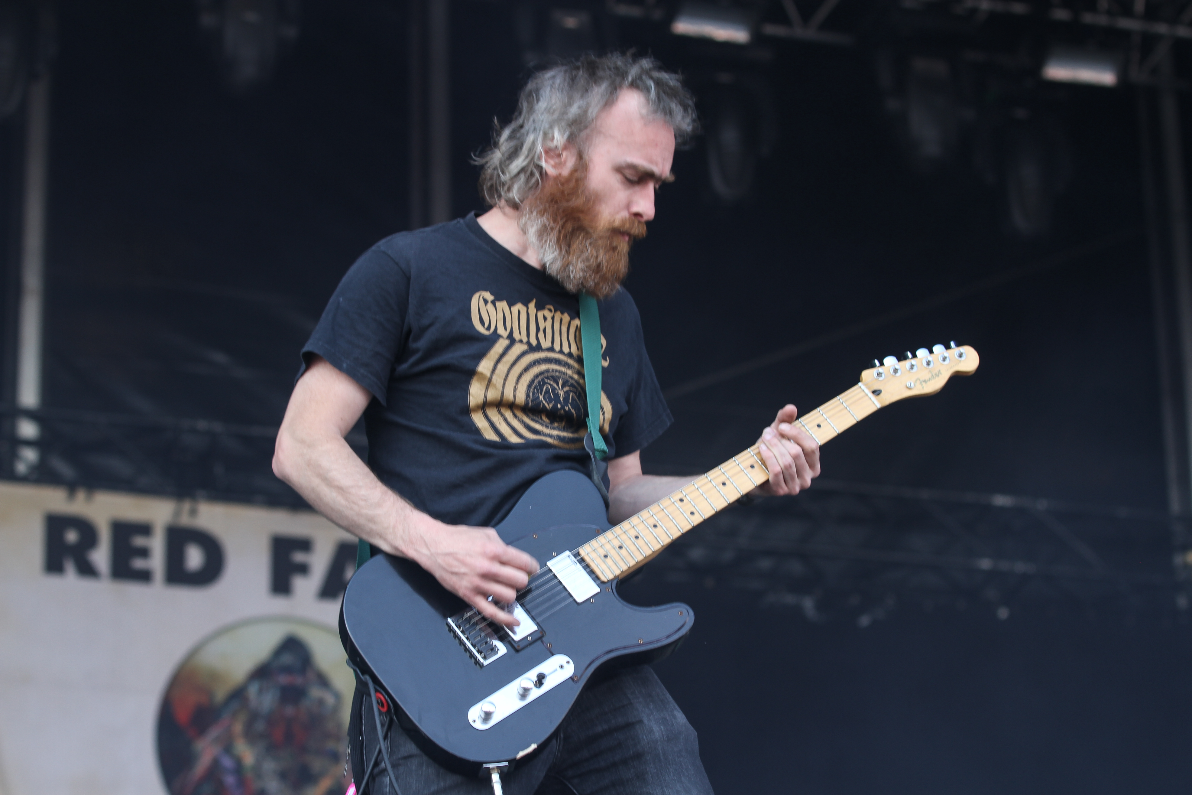 Red Fang performing at With Full Force Festival 2013